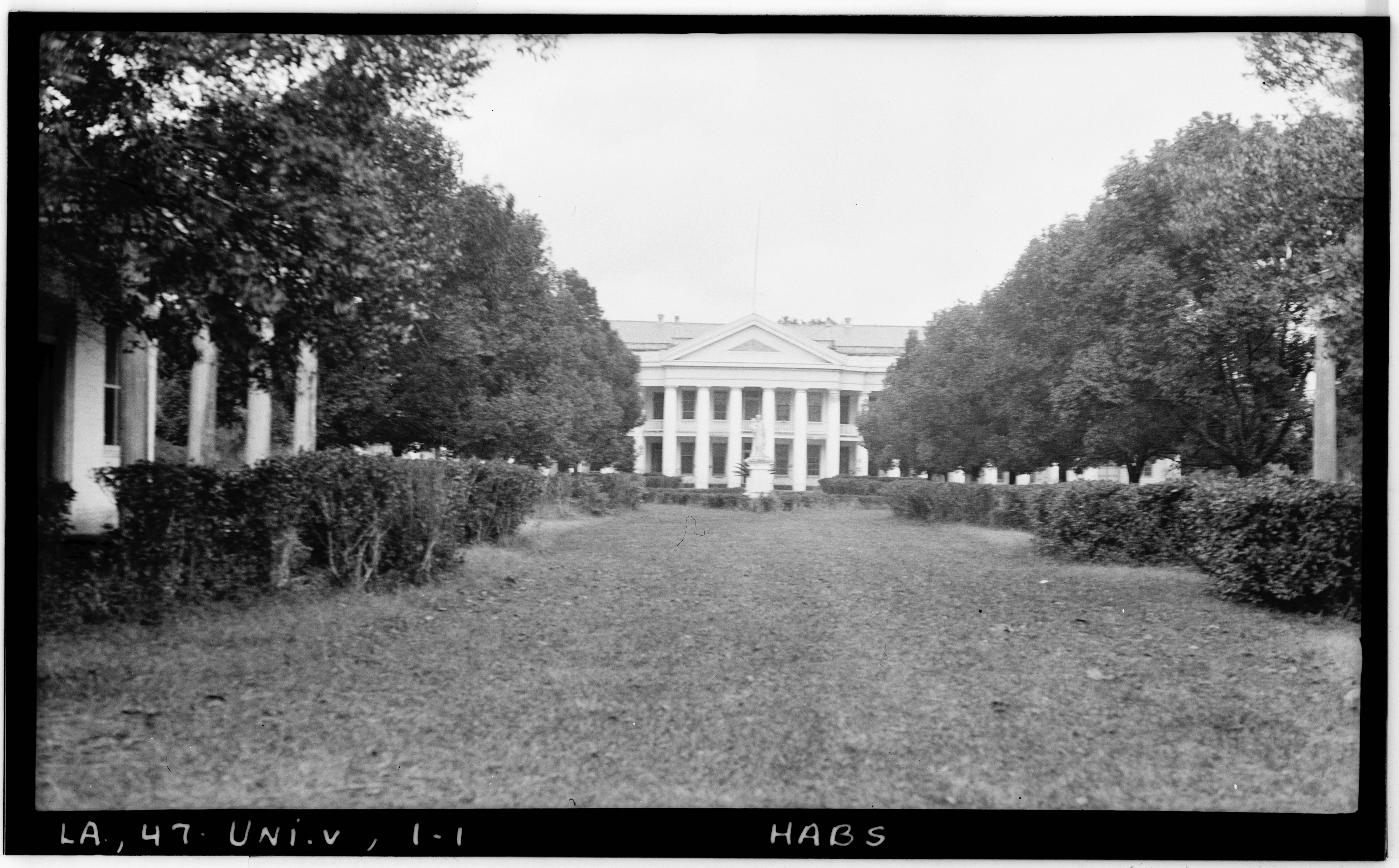 The Jefferson College was founded in 1831 to educate the sons of the plantation owners along the Mississippi River. The President's House and the gate houses date from 1836 while the Main Building dates to 1842. The college failed in 1848. In 1864 Valcour Aime, the owner of the property, transferred Jefferson College to Marist Fathers and they reestablished the college as St. Mary’s Jefferson College. St. Mary’s Jefferson College operated until 1927. In 1931 the Jesuit Fathers of New Orleans purchased Jefferson College and it was renamed Manresa House of Retreats. The Jefferson College is on the National Register #85000162.